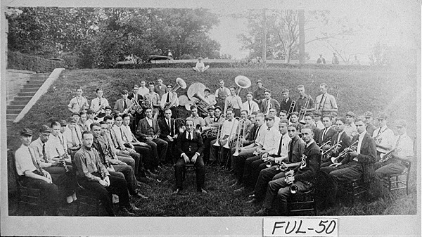 Members of the Georgia Tech Marching Band in 1920, shown holding their instruments